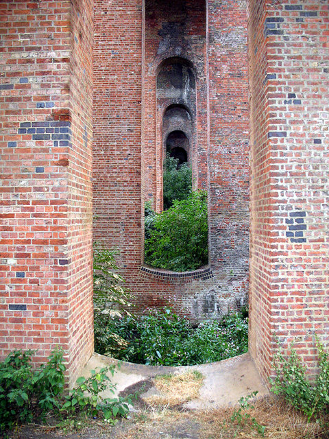 Underneath the Arches of Dollis Brook Viaduct